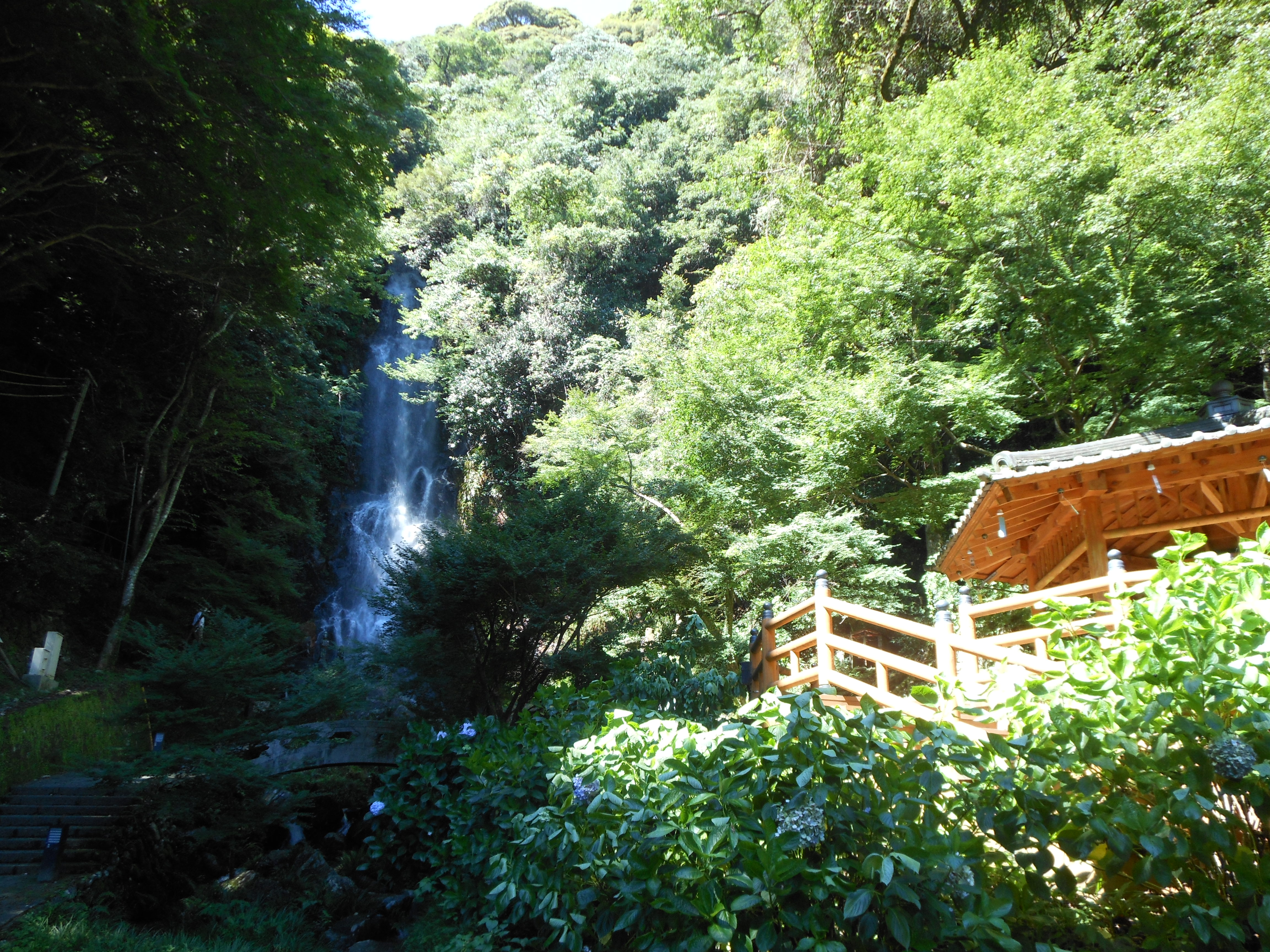 Kiyomizunotaki Fall and rest place, Kiyomizu, Ogi city, Saga prefecture, Japan.